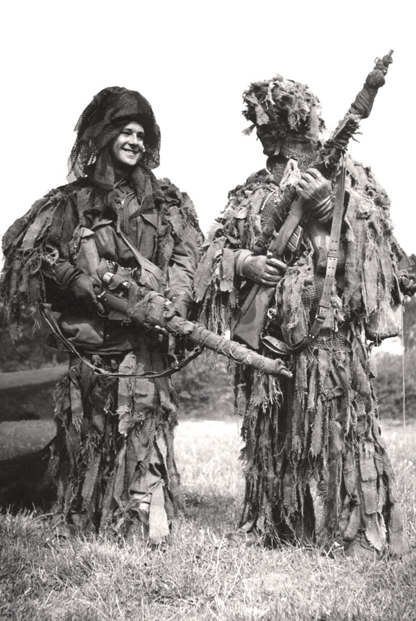 Lovat Scouts WW2 Ghillie Suit